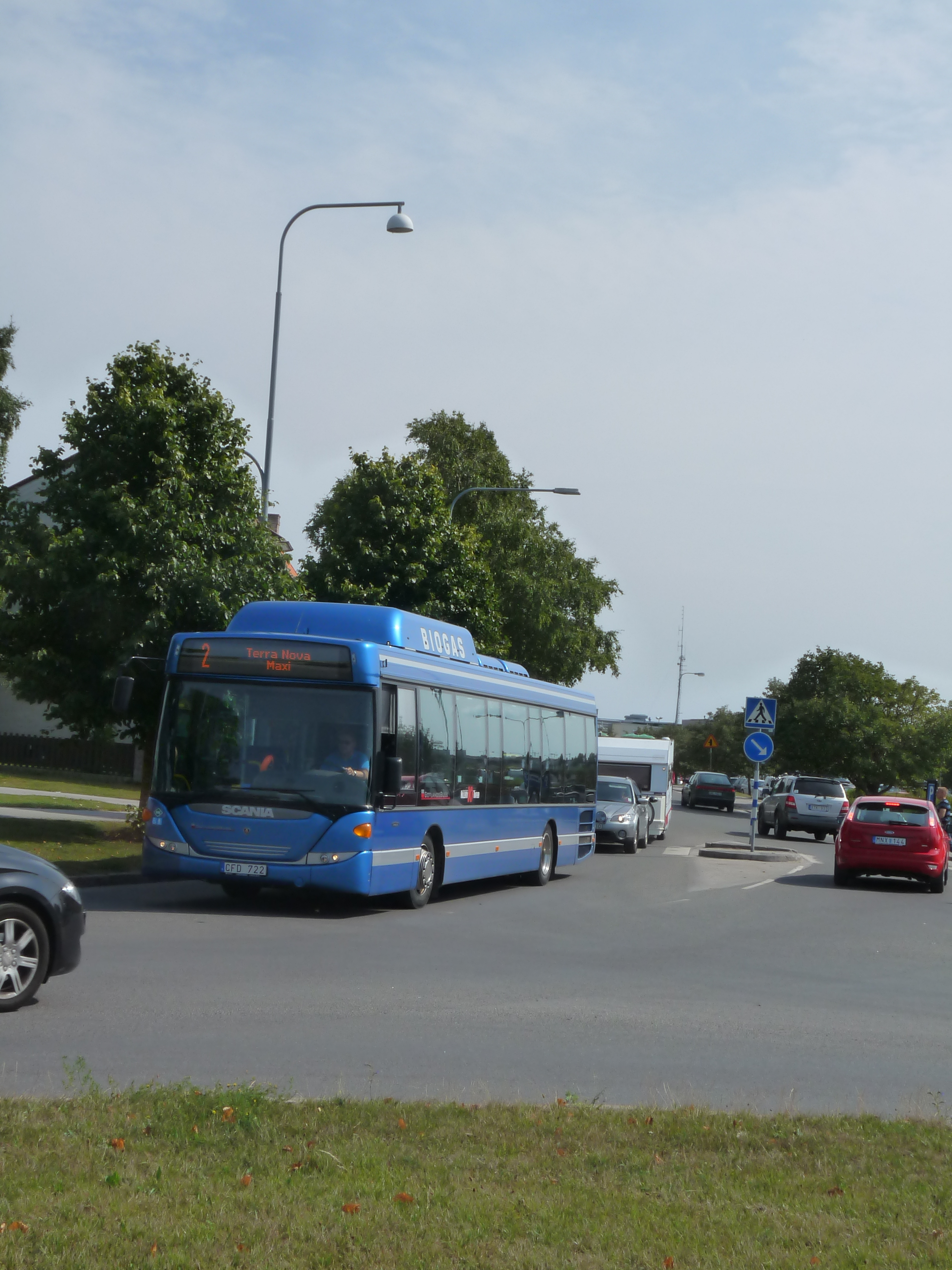 Scania public bus in Visby, Sweden